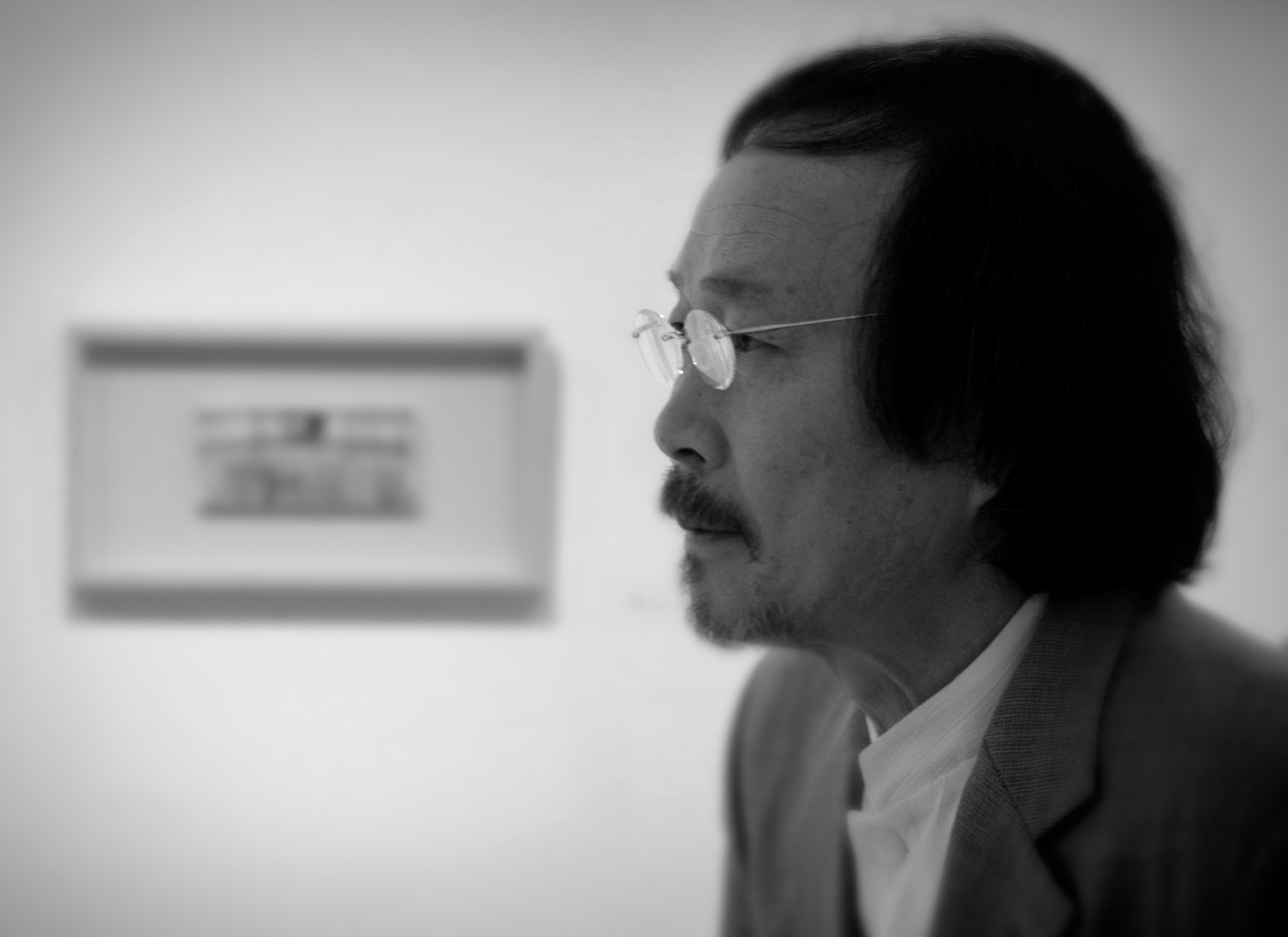 Jun Itami